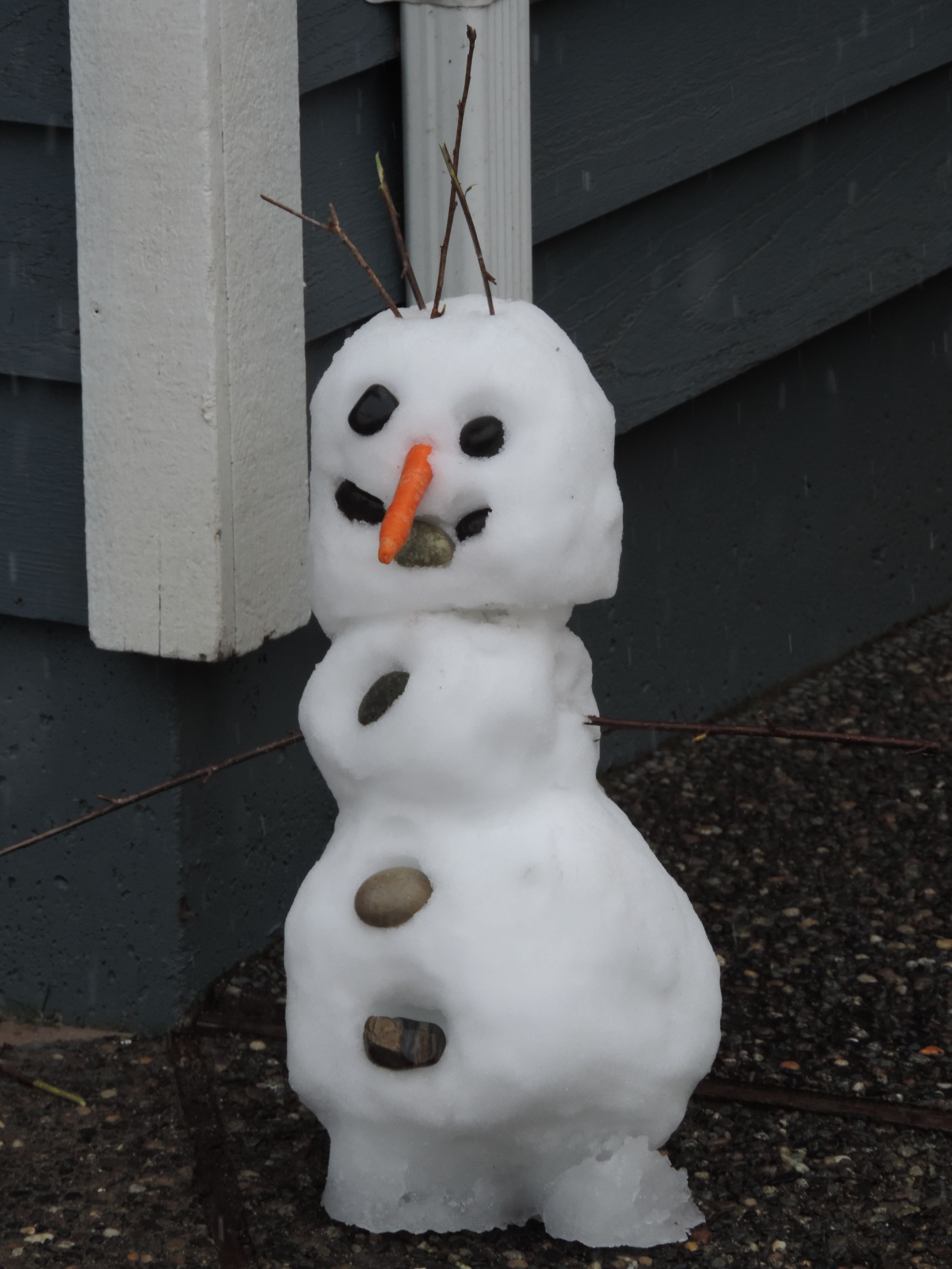 Olaf the Snowman